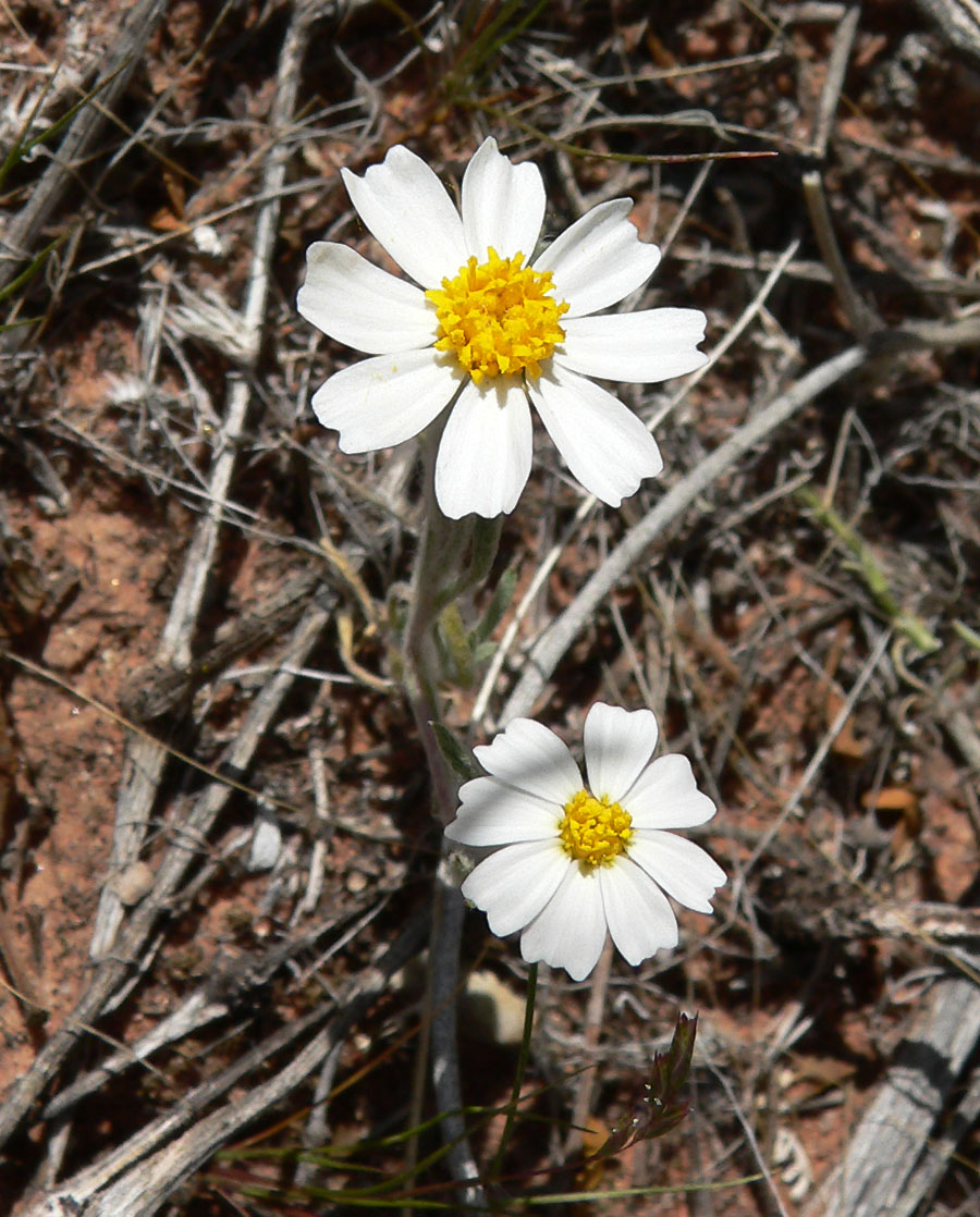 Eriophyllum lanosum near the Northshore Road east of the Callville Bay road, Lake Mead National Recreation Area, southern Nevada (NNPS field trip)